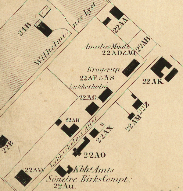 Map detail showing Lykkesholms Allé in Frederiksberg, Copenhagen, Denmark